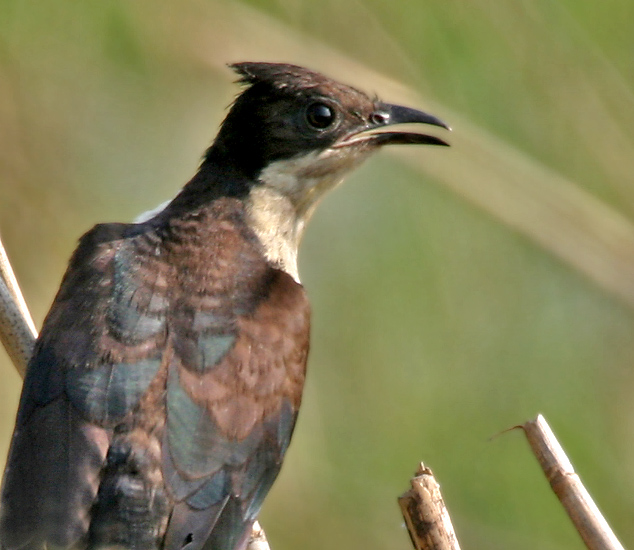 Pied Cuckoo, Pied Crested Cuckoo, or Jacobin Cuckoo Clamator jacobinus in Kolleru, Andhra Pradesh, India.